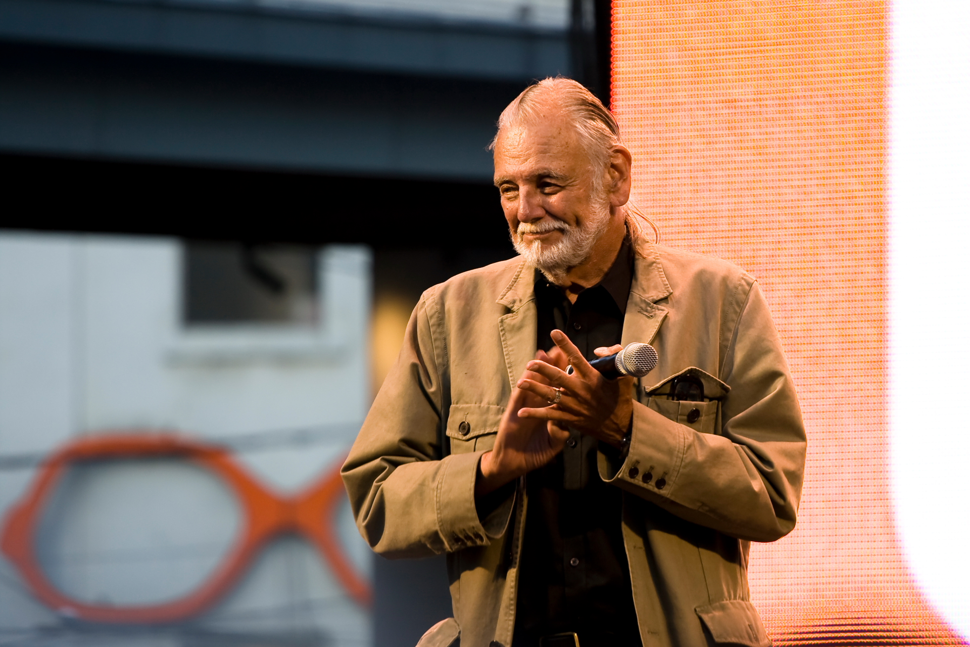 The Toronto Zombie Walk "Special Director's Cut Edition" at the Toronto International Film Festival, 2009.